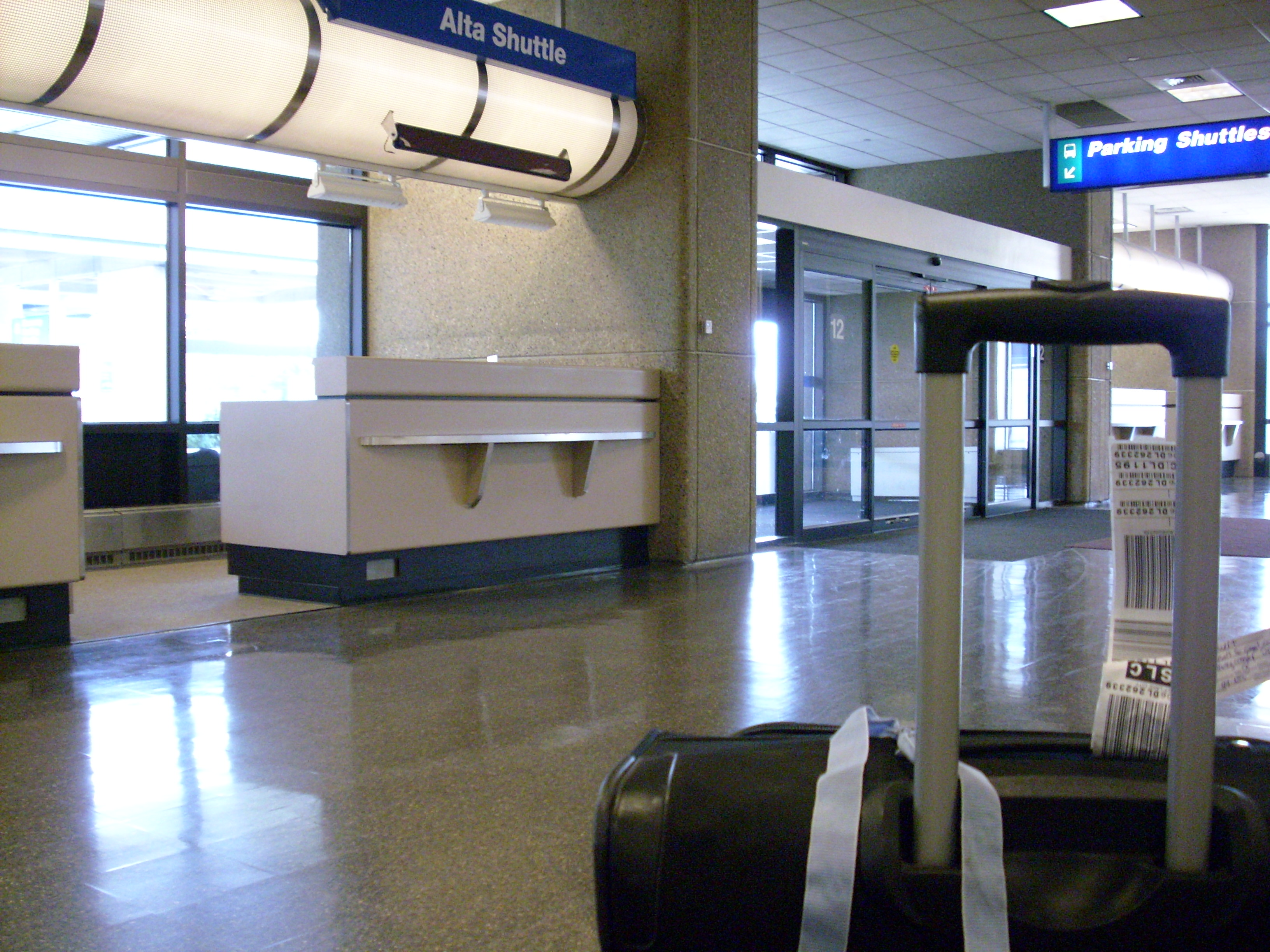 Salt Lake City Airport baggage claim area